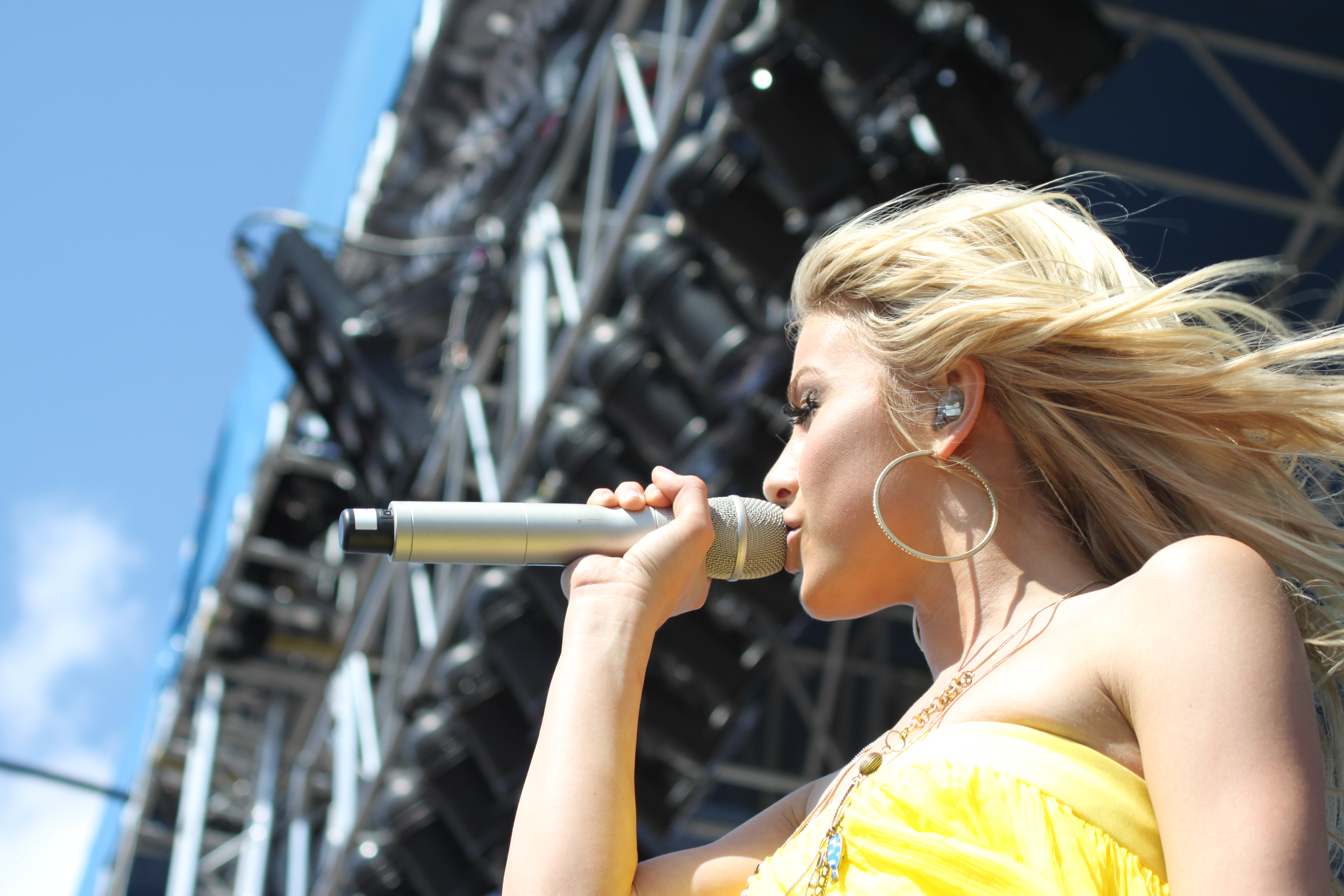 Julianne Hough performing at the 2009 B93 Birthday Bash concert. Photographed with a Canon EOS Rebel T1i.